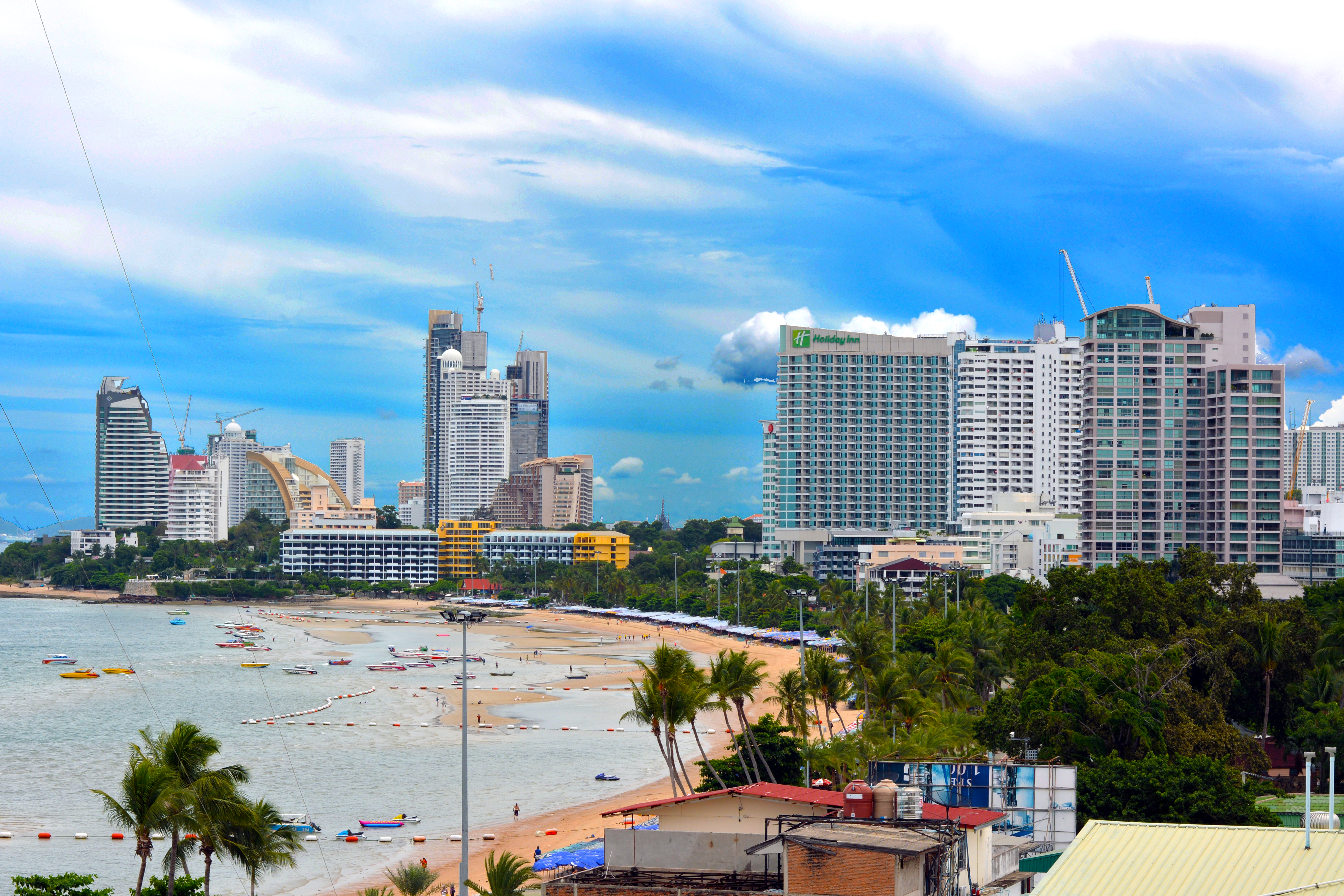 Pattaya Thailand skyline photo D Ramey Logan